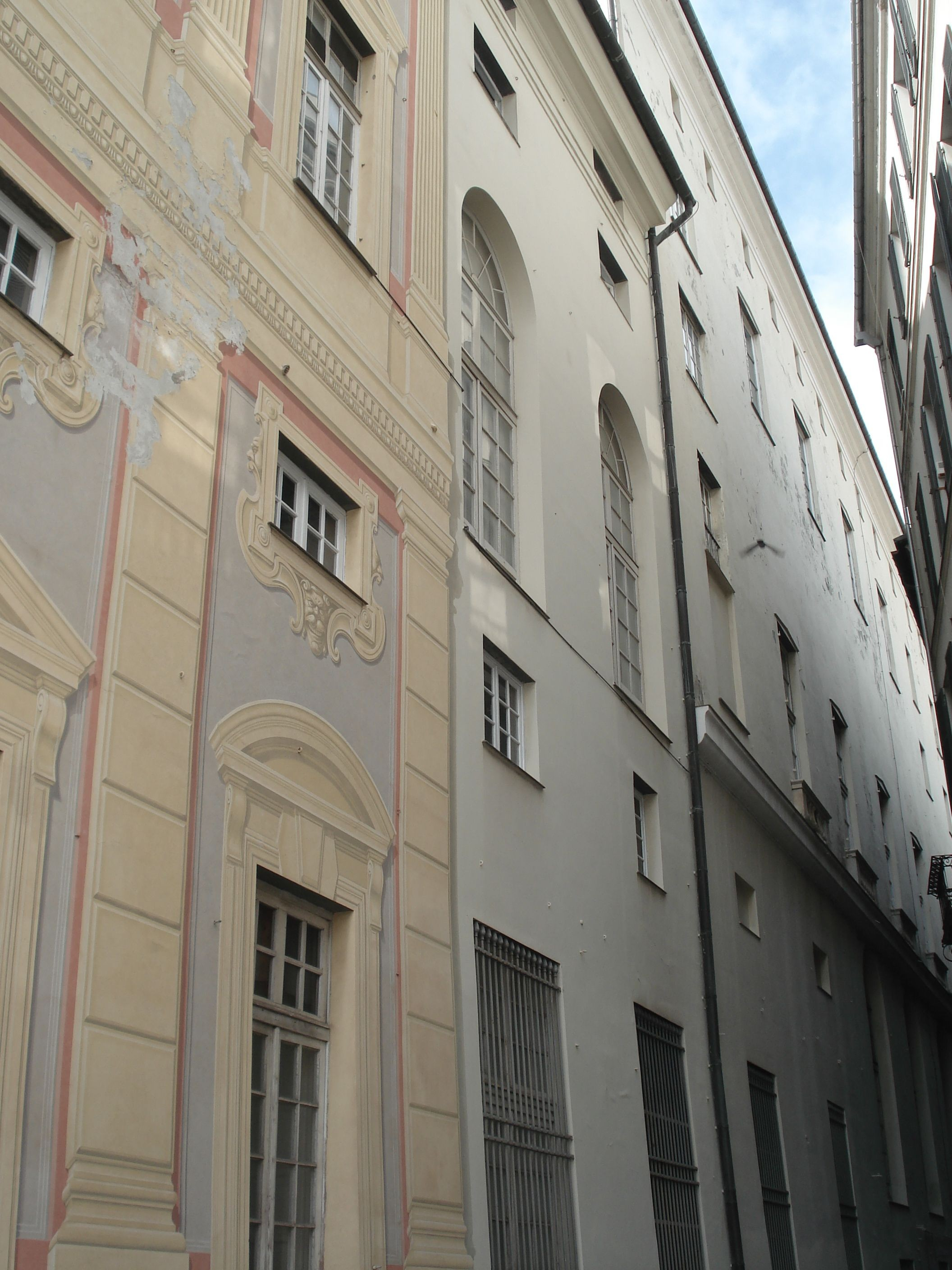 Lateral facade of Doge's Palace in Genoa